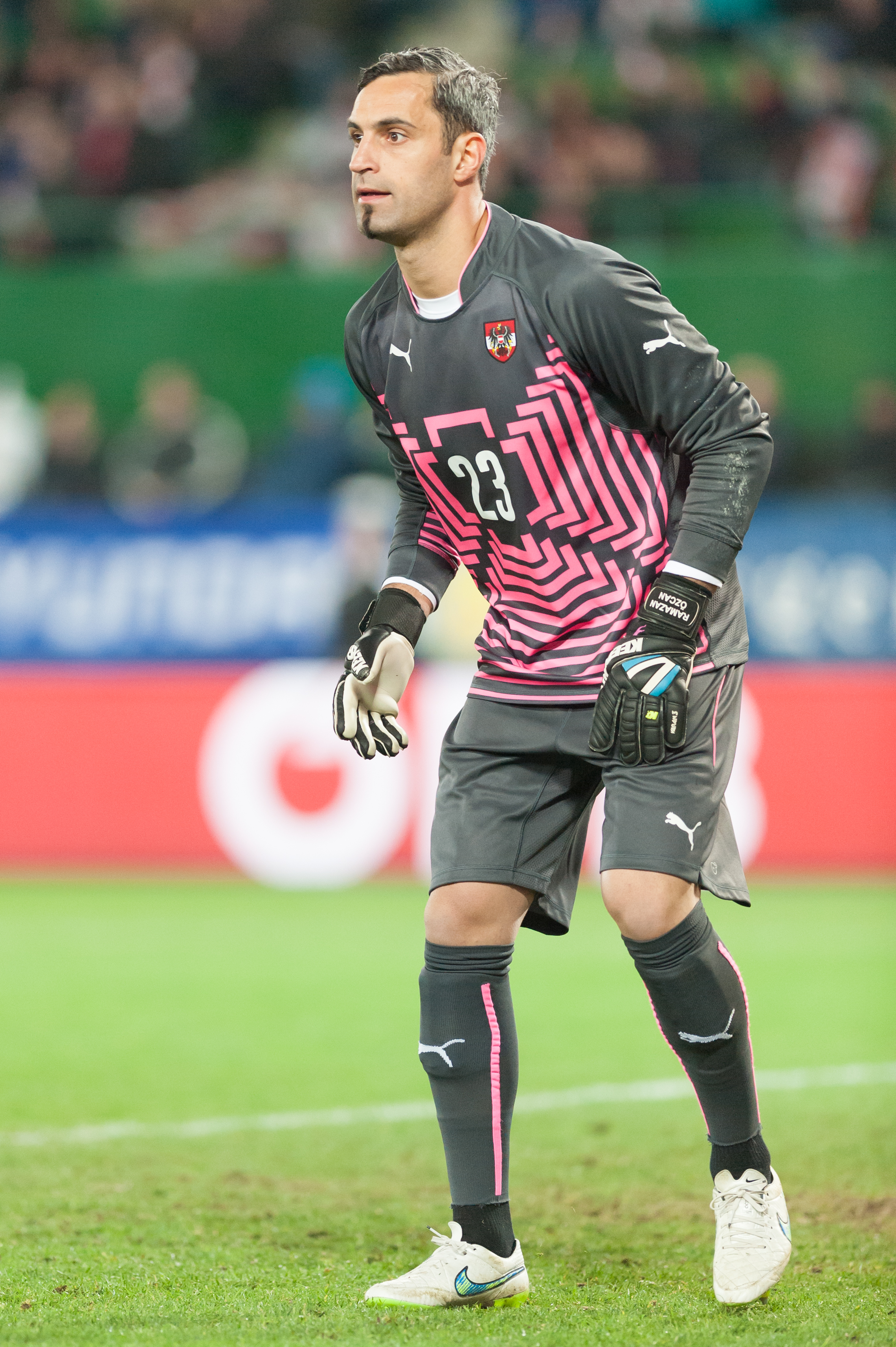 International friendly Austria vs. Bosnia and Herzegovina, 2015-03-31, Vienna